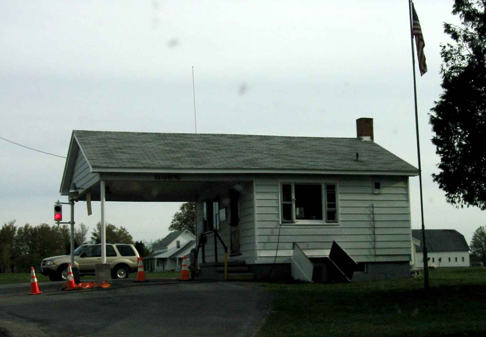 US Border inspection station at Jamisons Line, NY prior to its permanent closure